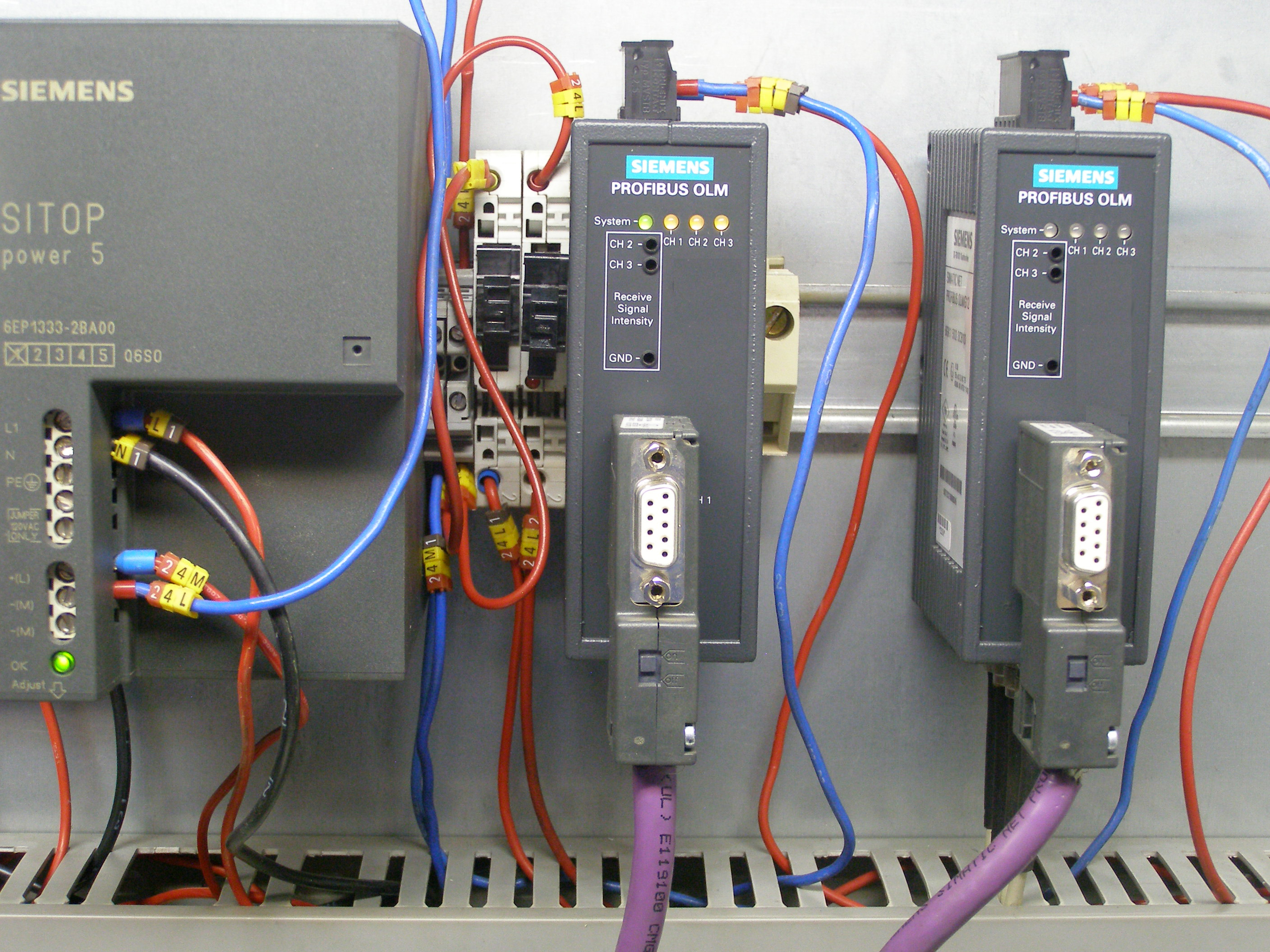 Siemens OLM modules.